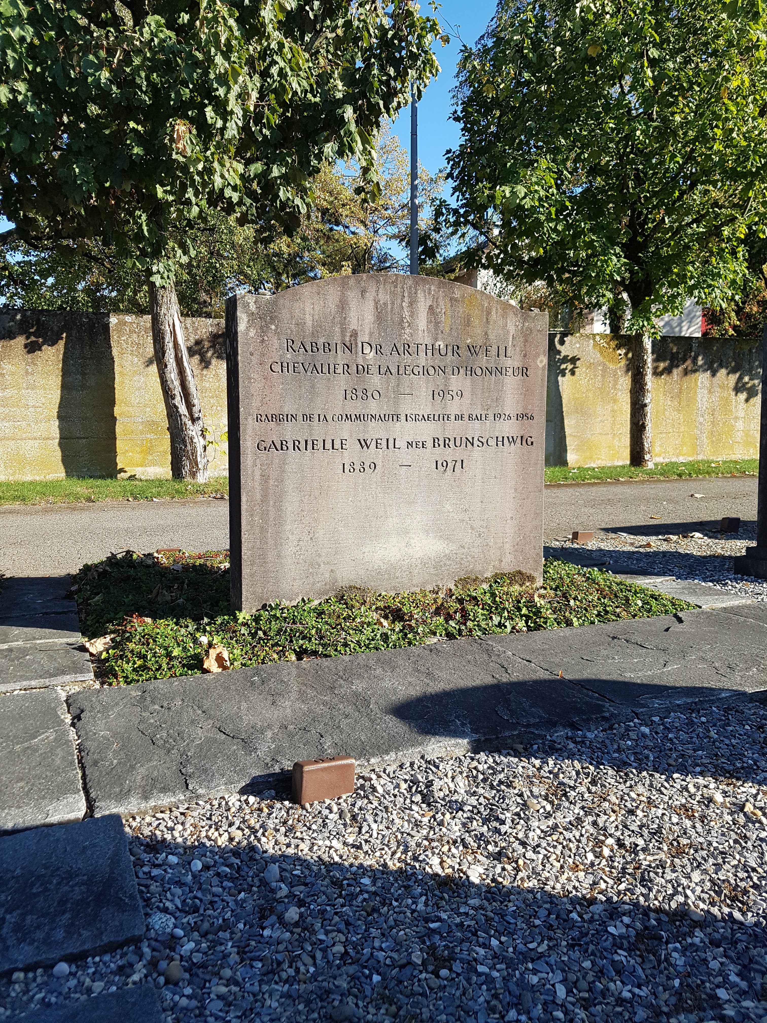 Grave of Arthur Weil, rabbi in Basel, on Israelitischer Friedhof Basel